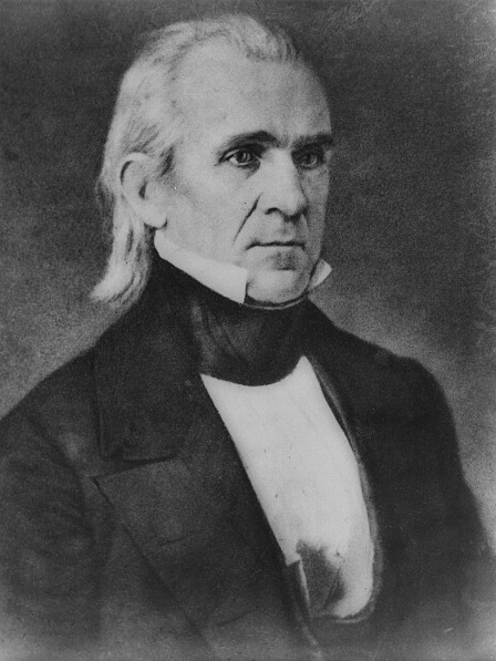 James Knox Polk (11th president of the United States)